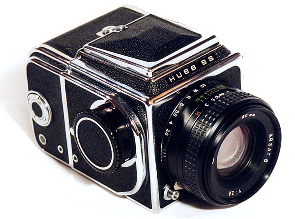 This is a Kiev 88 medium format camera. I took this picture myself. --Jaubouin 12:16, 6 August 2006 (UTC)